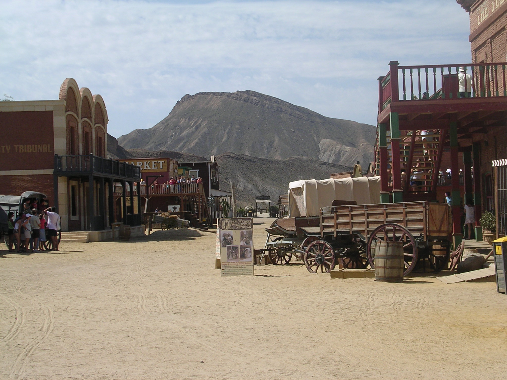 Barcelona, Spain